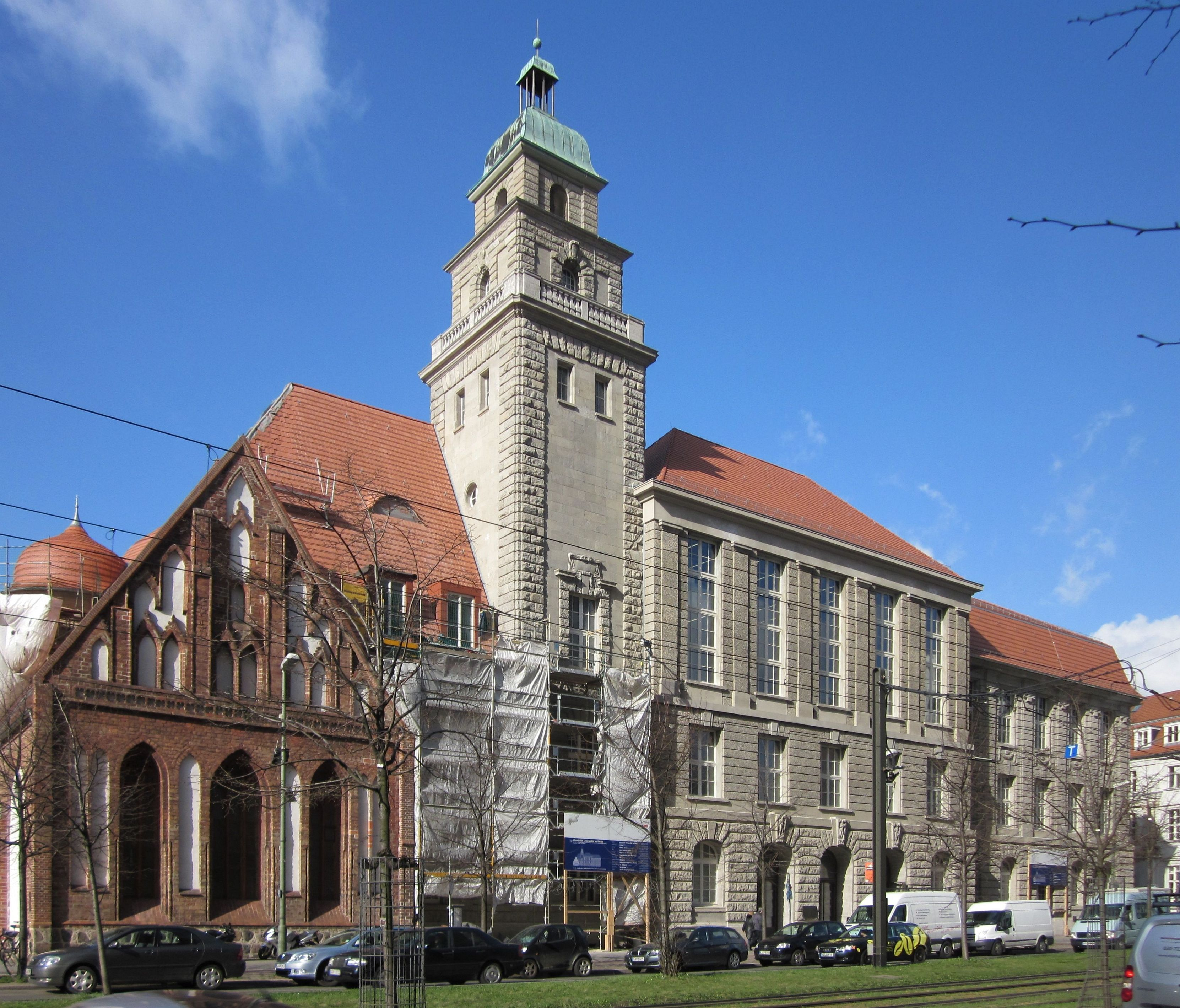 The former Handelshochschule (Commercial College) Berlin at Spandauer Straße No. 1 in Berlin-Mitte, now seat of the Department of Economics of Humboldt University. The building was constructed from 1904 to 1906 to a design by the architects Wilhelm Cremer and Richard Wolffenstein, who integrated the medieval Heilig-Geist-Kapelle (Holy Ghost Chapel, left) into the complex. The building has been designated as a historic landmark.